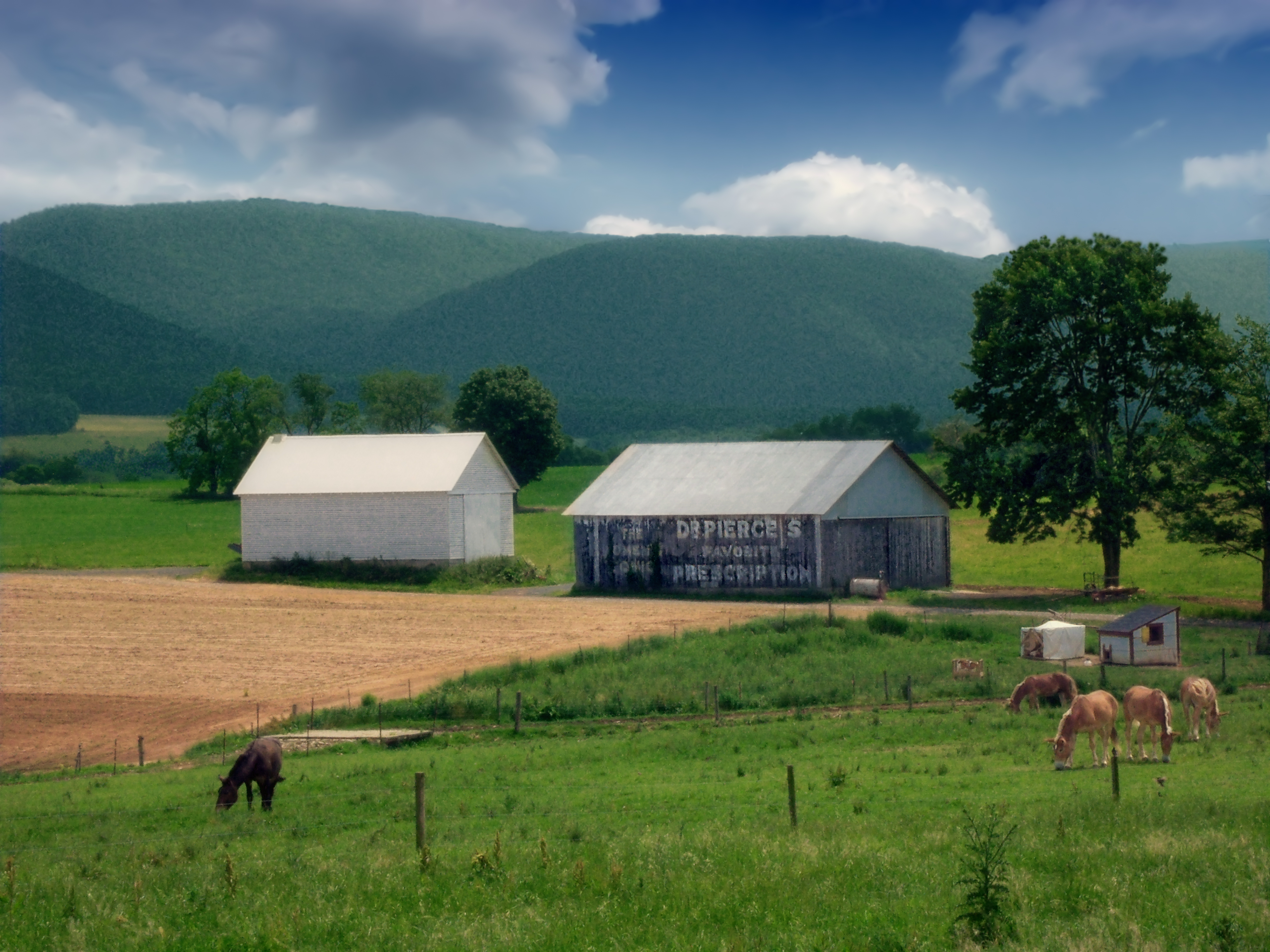 Ridge-and-valley landscape, Porter Township, Clinton County.